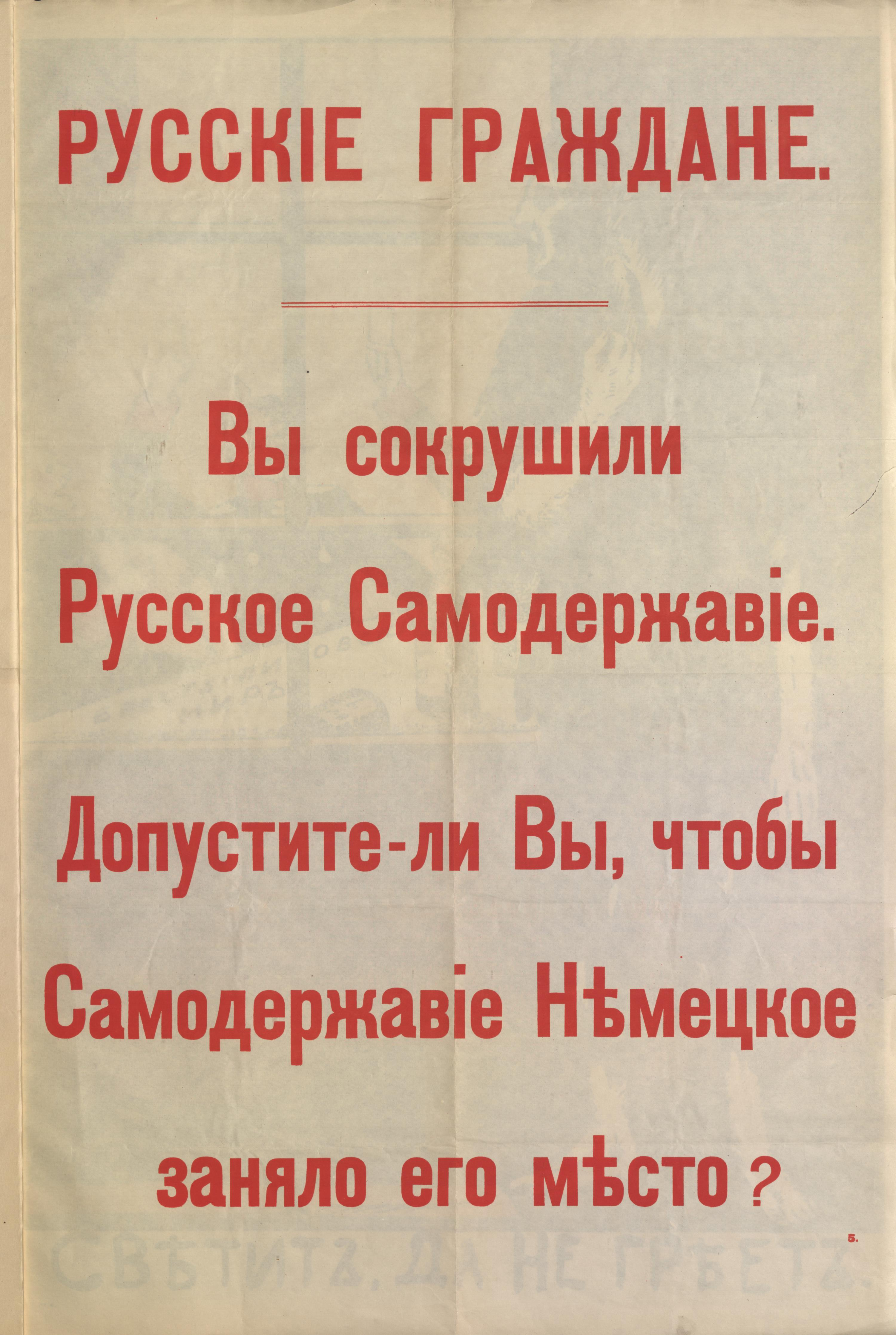 Title: [A Collection of posters and leaflets on the European War, issued for circulation in Russia.] Russ. Subjects: World War, 1914-1918 -- Posters; World War, 1914-1918 -- Propaganda; Pamphlet Rights: Terms governing use: Public Domain. Access restrictions: No restrictions. Publication Details: [1917-1919] Language: Russian Identifier: System number: 016586684 Notes: Creation/Production Credits Note: Issued by the Allied forces. Physical Description: 12 pt. ; 8º, 4º & fol. Shelfmark(s): General Reference Collection DRT Digital Store Cup.645.c.12. UIN: BLL01016586684